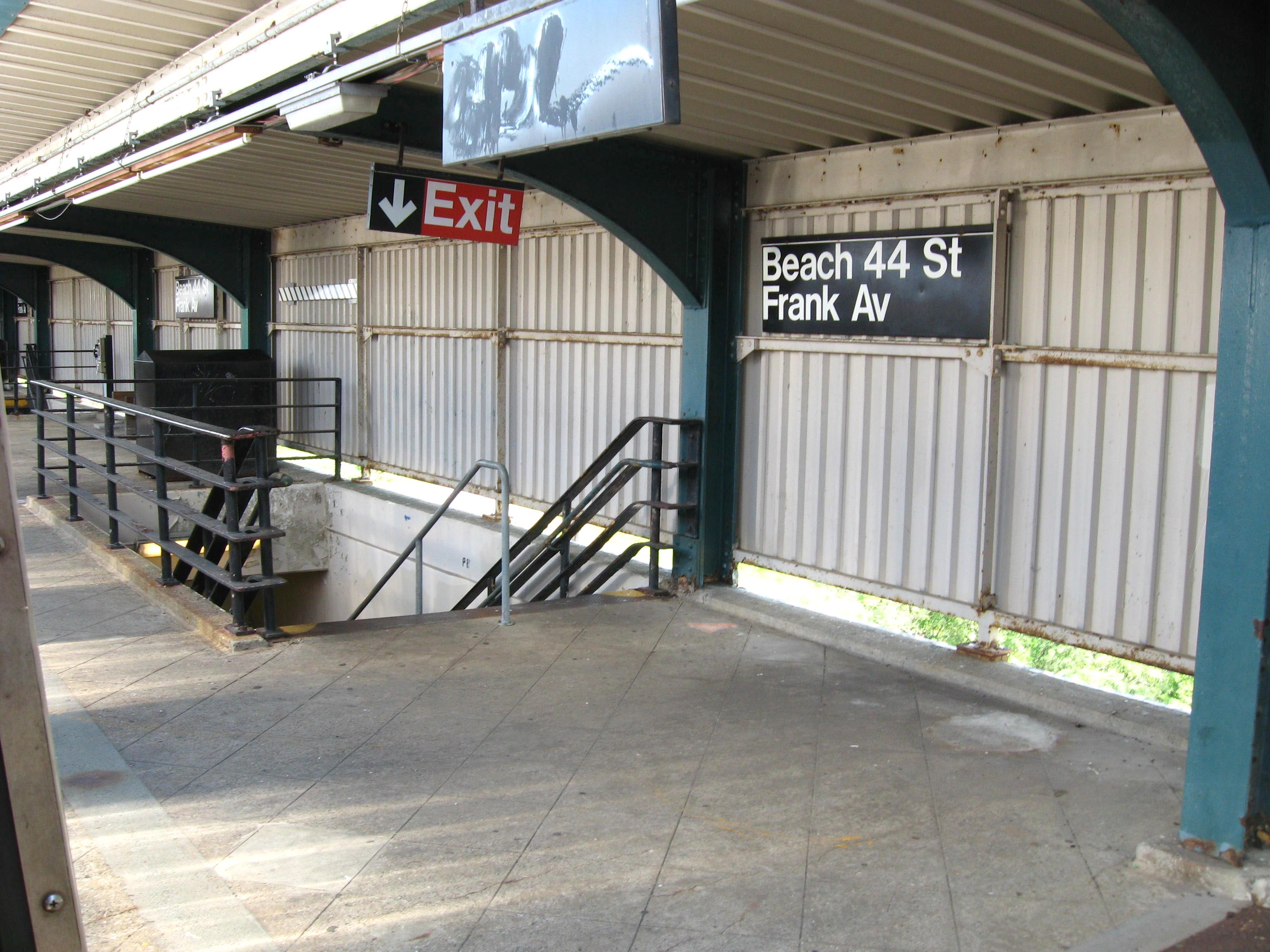 Looking southeast out car door at Beach 44th Street (IND Rockaway Line)